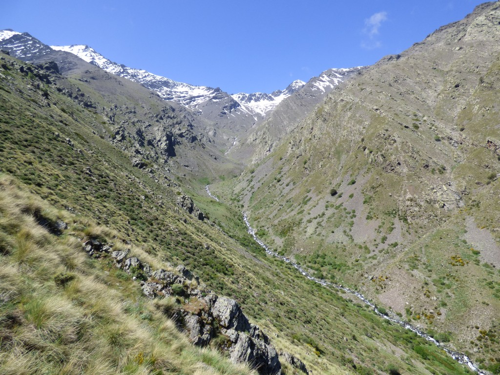 Valdeinfierno river